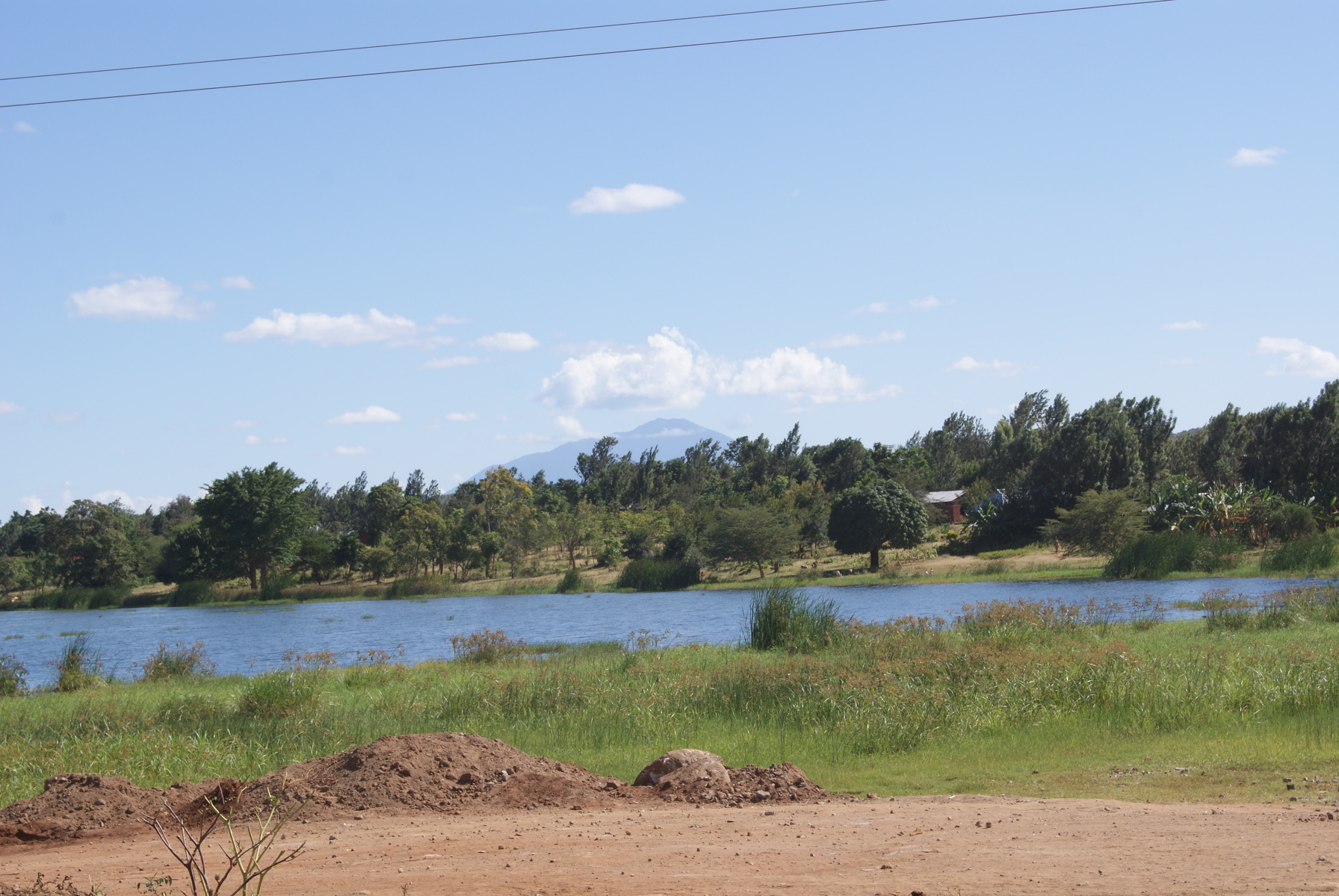 Babati Lake from the Babati town - Kondoa Road/May 2011